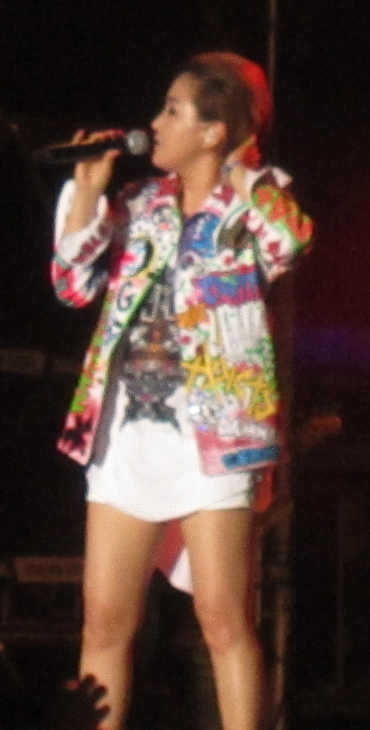 So Chan-whee in Busan Rock Festival on 8 August 2015